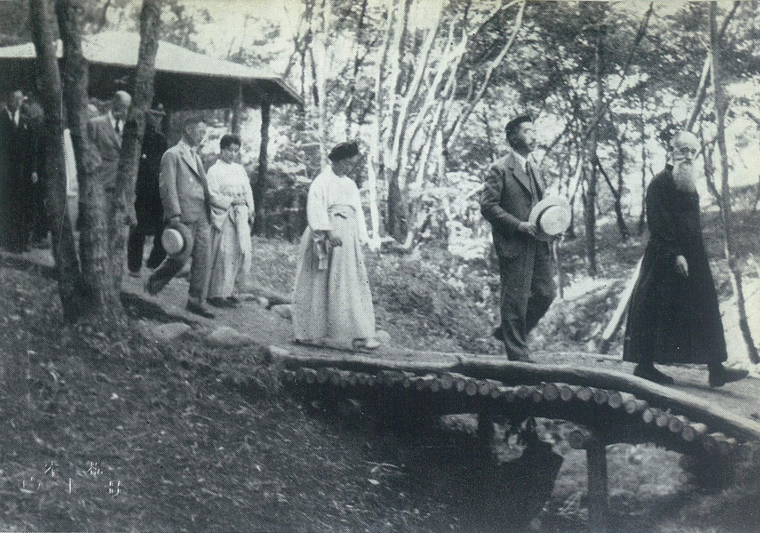 The Emperor and the Empress and Joseph-Marius Charles Flaujac marching forward.